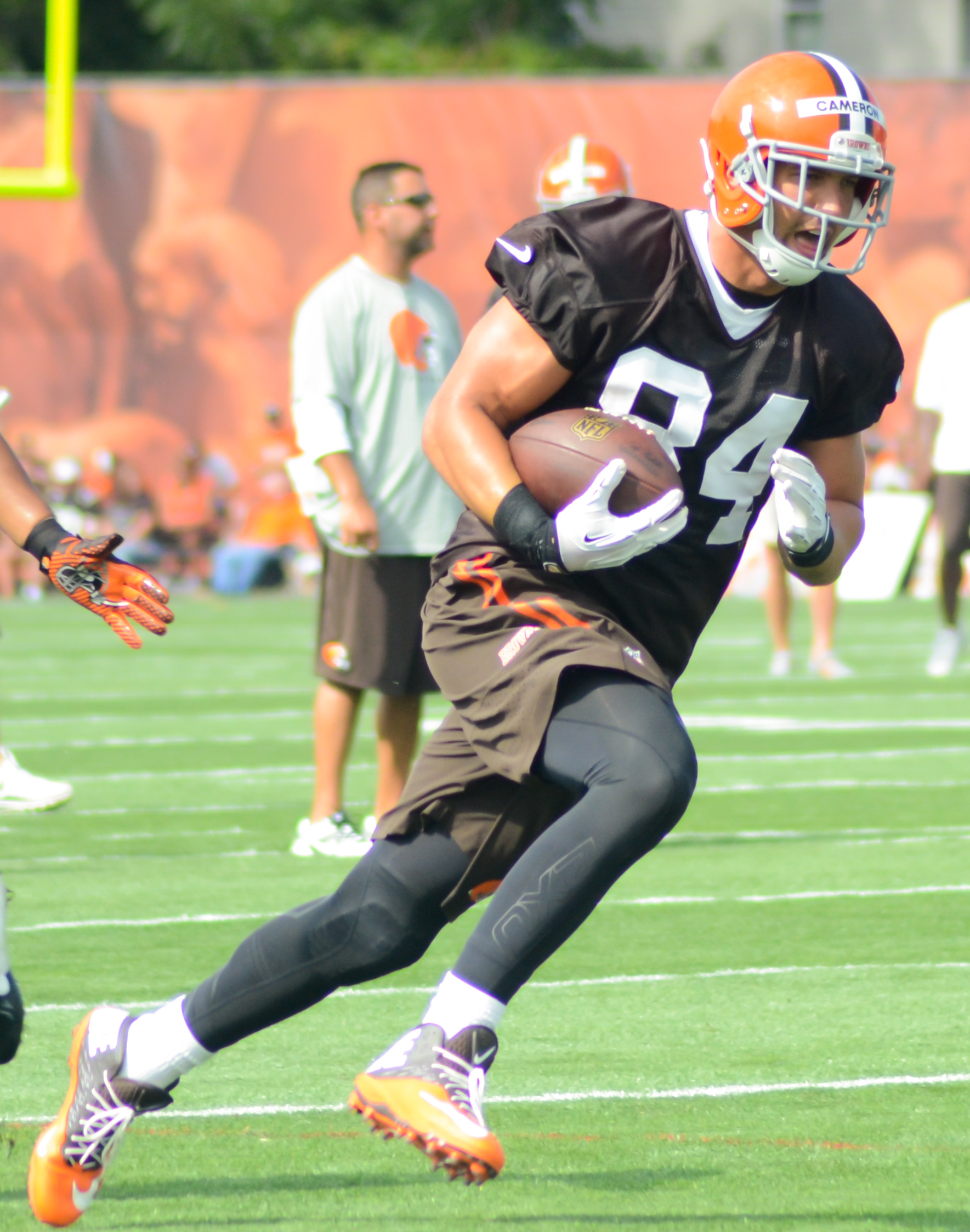 Jordan Cameron at 2014 Browns training camp.